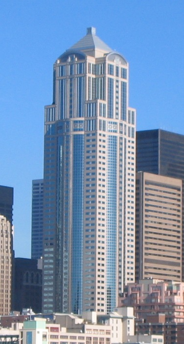 Photo of the Washington Mutual Tower in Seattle from the Bell Street pier.